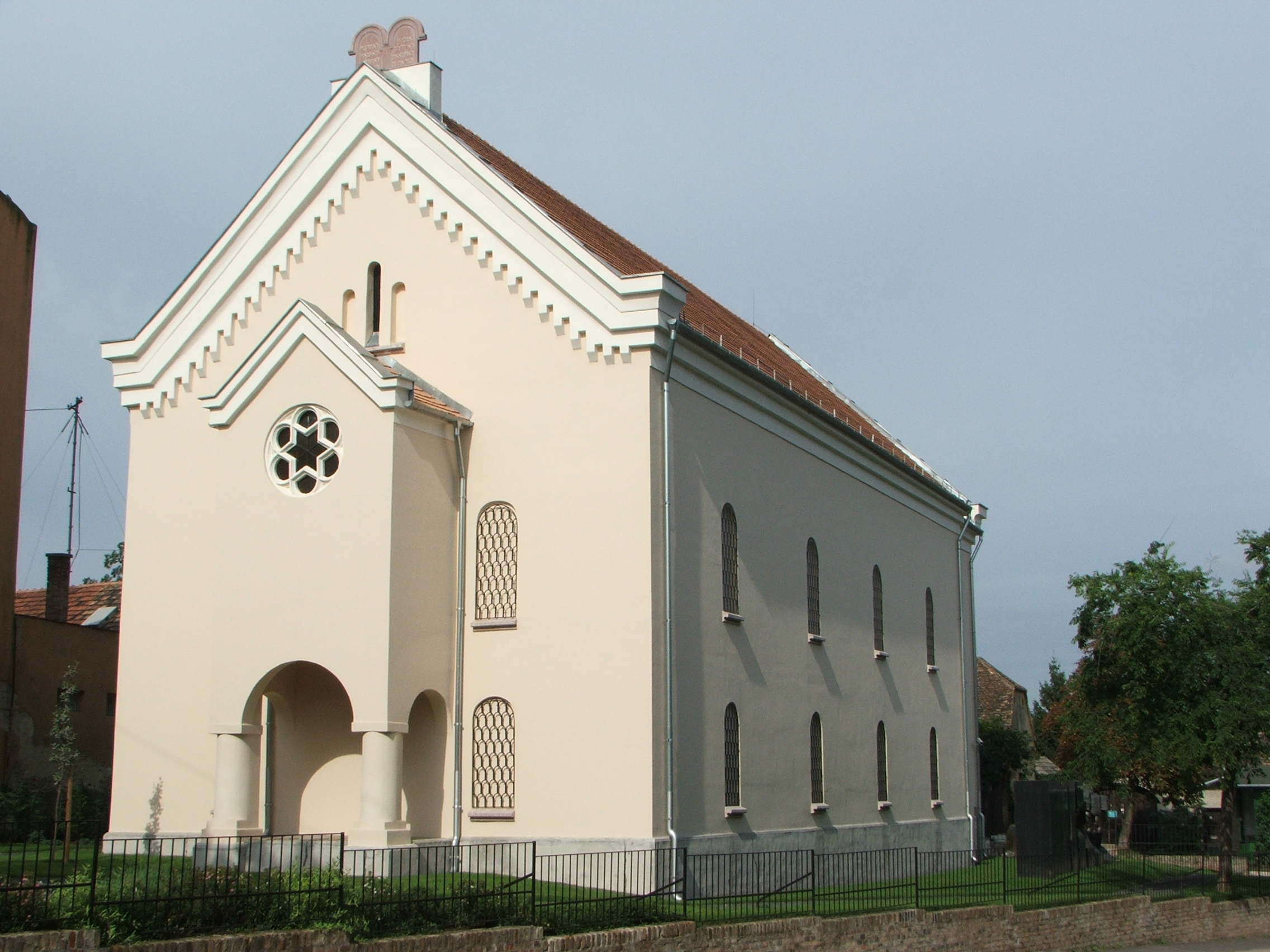 Synagoge in Heroes' Square Tata, Hungary Photo: József Süveg (2005)